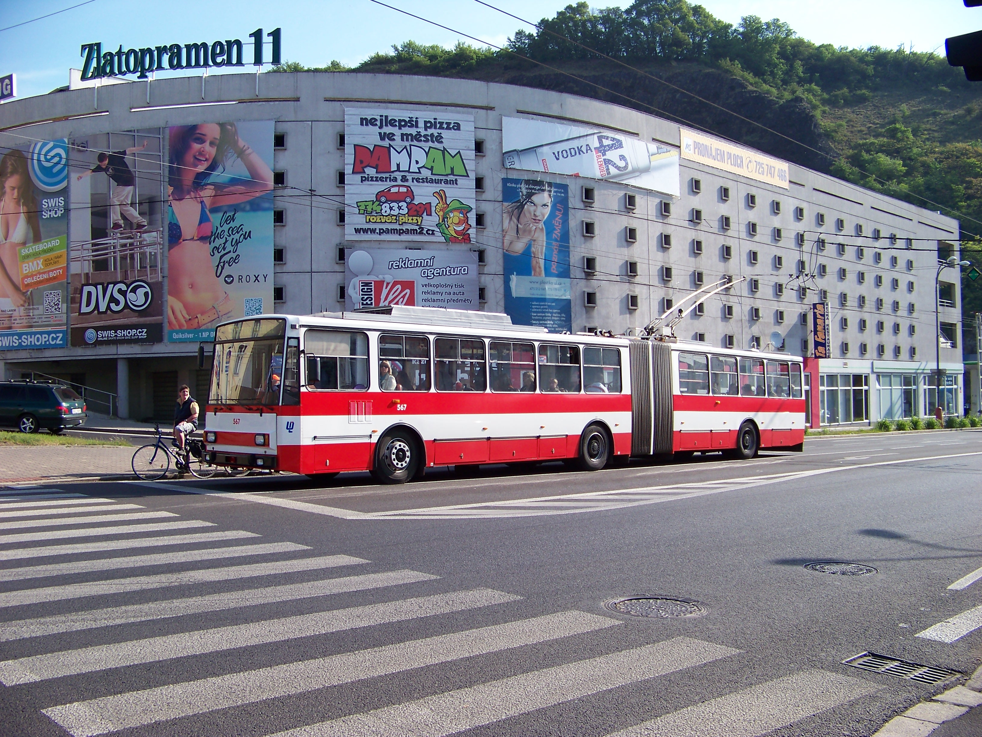 Ústí nad Labem-centrum, Ústí nad Labem District, Ústí nad Labem Region, the Czech Republic. Předmostí street, a trolleybus and a parking house.